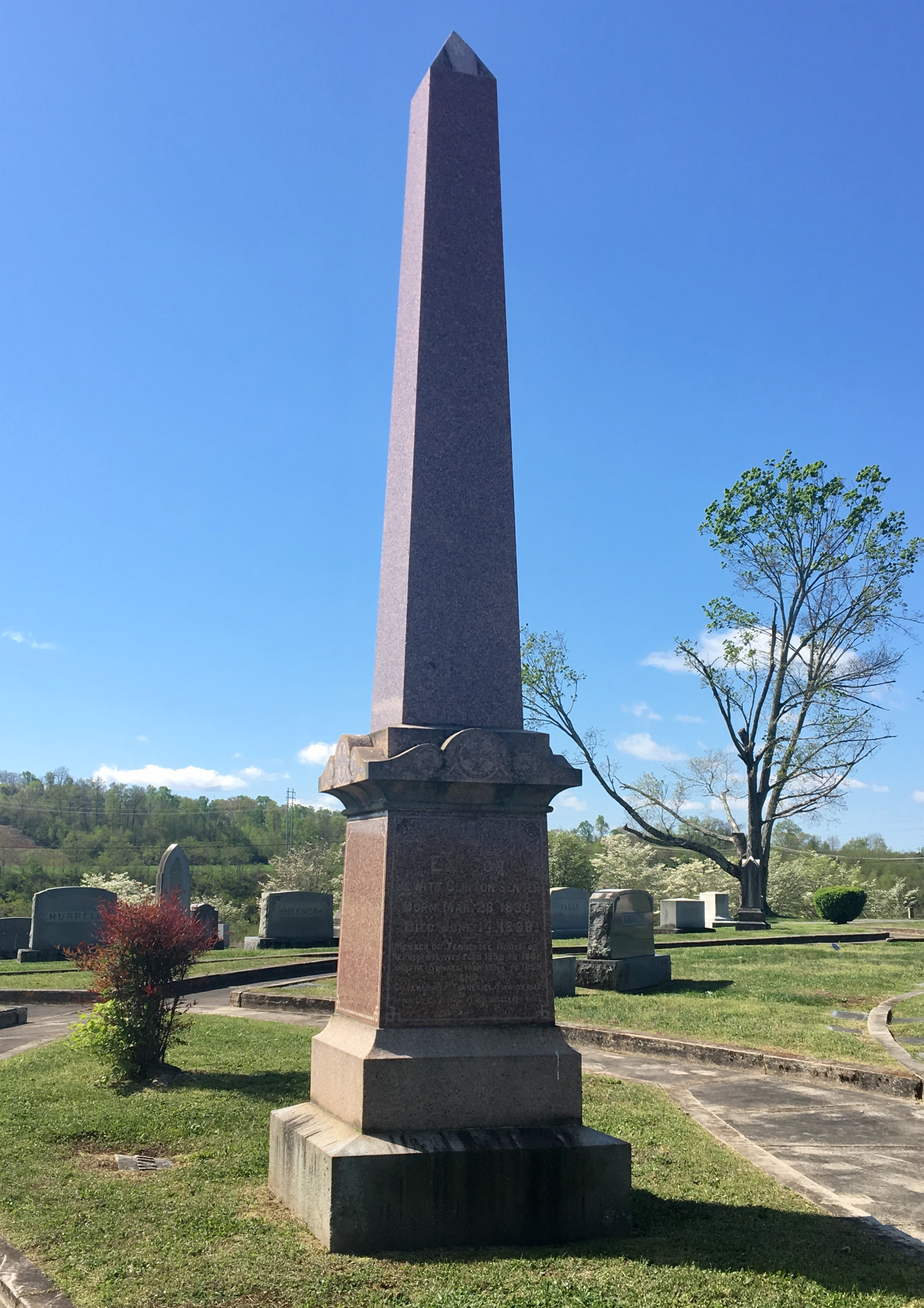 The grave of former Tennessee Governor Dewitt Clinton Senter at Emma Jarnagin Cemetery in Morristown, Tennessee.